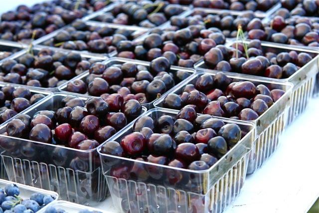 We attended the 2009 Lowell Riverwalk Festival on Sunday. This four-day event includes many activities for you and your family to enjoy. Thursday, Friday and Saturday night concerts, arts and crafts, parade, pet parade, Brian Mead Memorial Riverwalk Cruise-in, Rumble the Riverwalk, Brew-B-Q event, children’s zone, historic pontoon rides, kayak and canoe race, kayak fun, food booths, downtown merchants shopping, health & fitness fair, street entertainers, $1500 duck race, fireworks and much more.